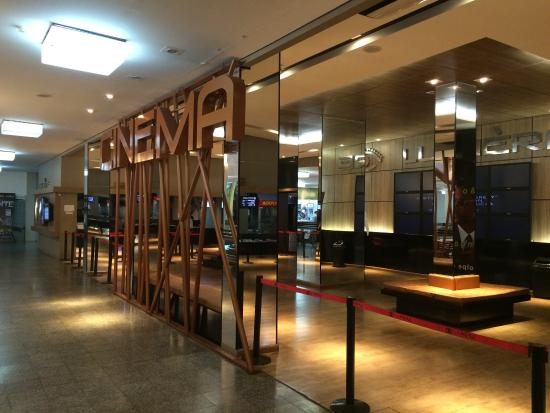 Cinemas Lumière - Palmas Shopping